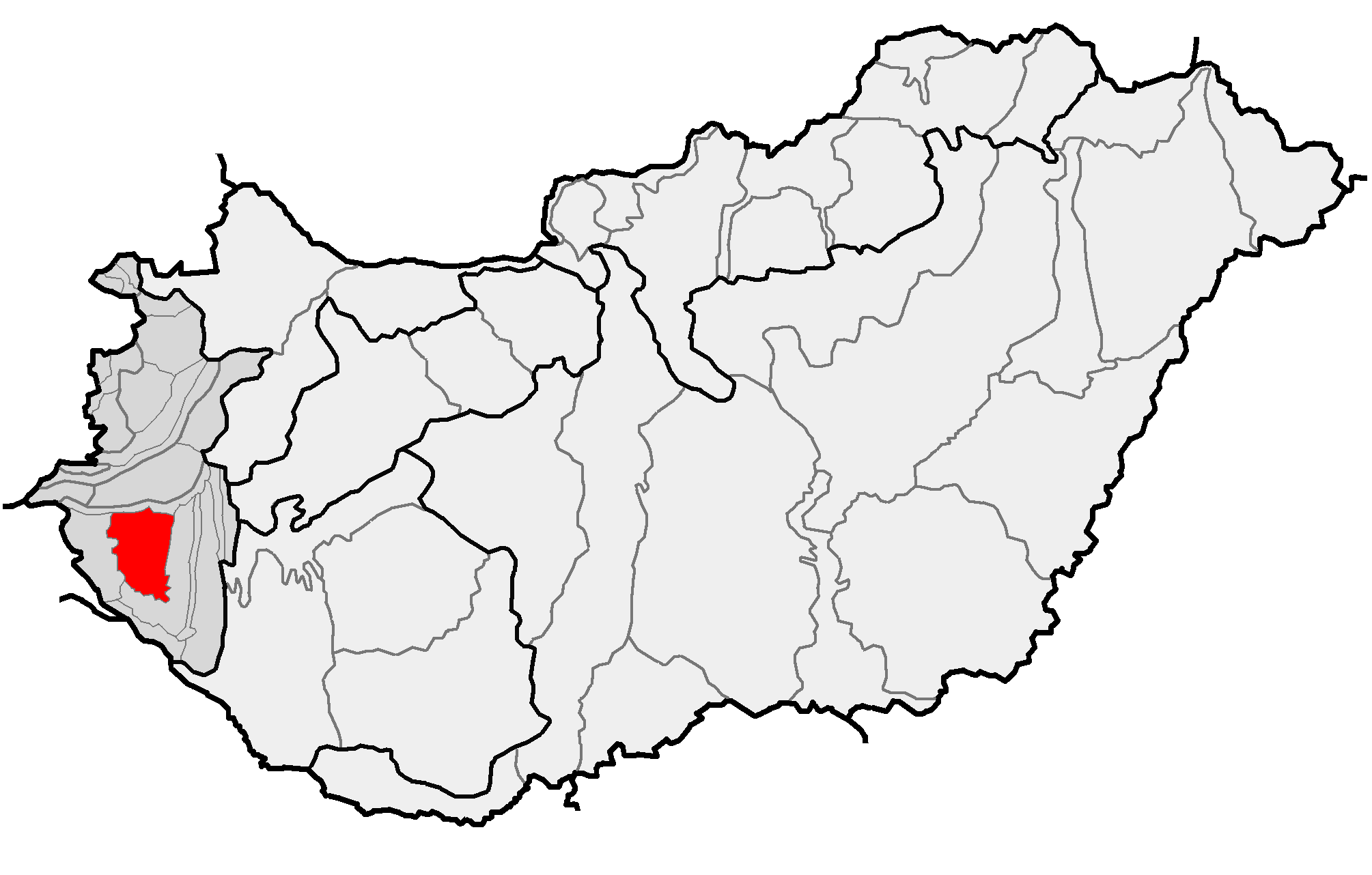 Location of geographical microregion of Közép-Zalai-dombság (red) and macroregion of Nyugat-magyarországi peremvidék (gray) within subdivisions of Hungary.